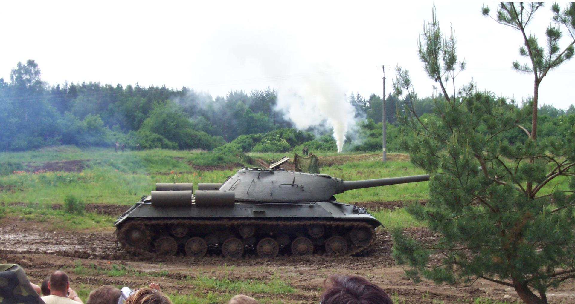 Soviet tank Imeni Staline from the end of WWII